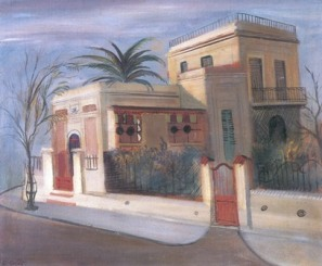 Reproduction of "Paisaje de Villa Ballester" (1935), painting of Raúl Soldi, argentine painter. (1905-1994)